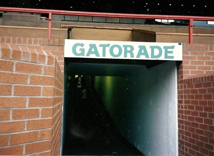 Players tunnel at Old Trafford (the old one, in 1992)